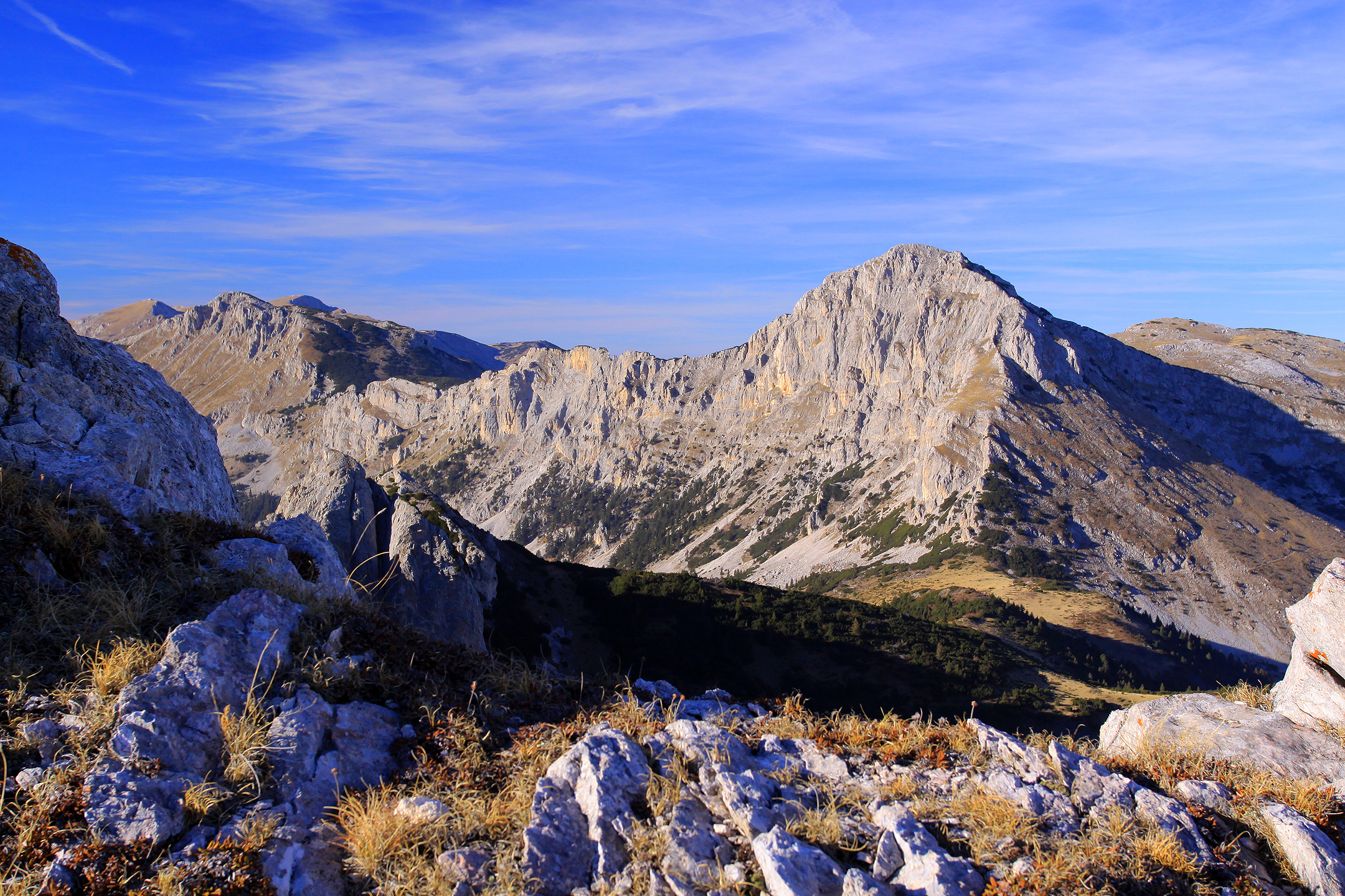 Çvërla is one of the biggest cliffs in Kosovo and is situated between the mountain region of Peja and Deçan. The peak of Çvërla known as Veternik stands 2461 m. high in altitude